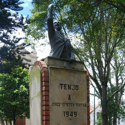 tenjo